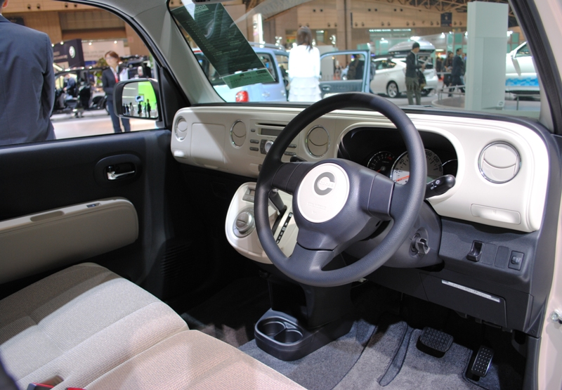 Daihatsu Mira Cocoa interior.